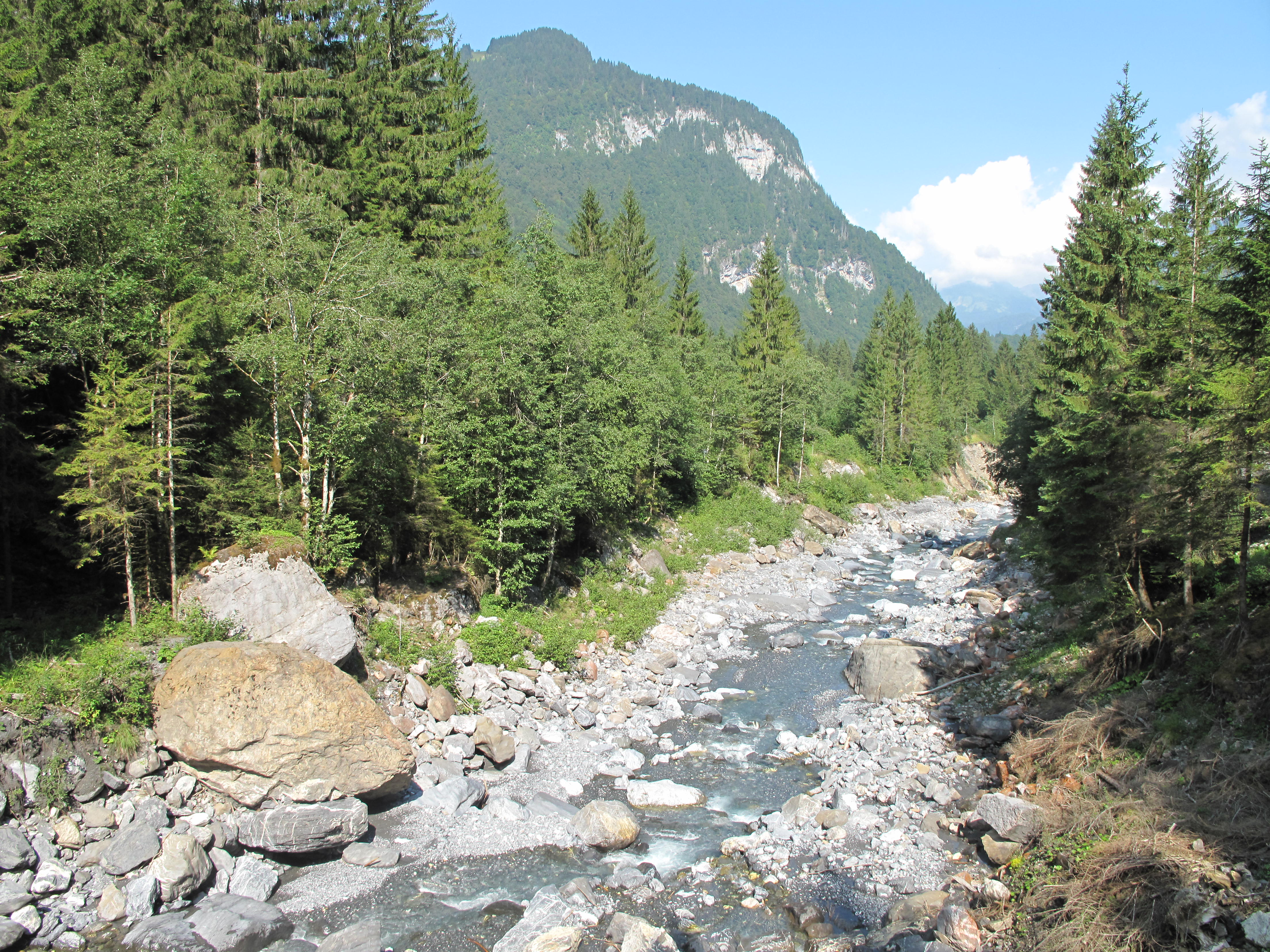 Look downstream of the Giffre des Fonts River from the bridge of Sales near Sixt-Fer-à-Cheval (Haute-Savoie, France).